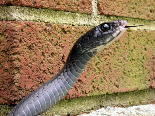 Northern Black Racer, Coluber constrictor constrictor, head and upper body extended as snake was "periscoping" near a sidewalk. Note white chin patch, but black belly of snake. Location: Durham County, North Carolina, United States.